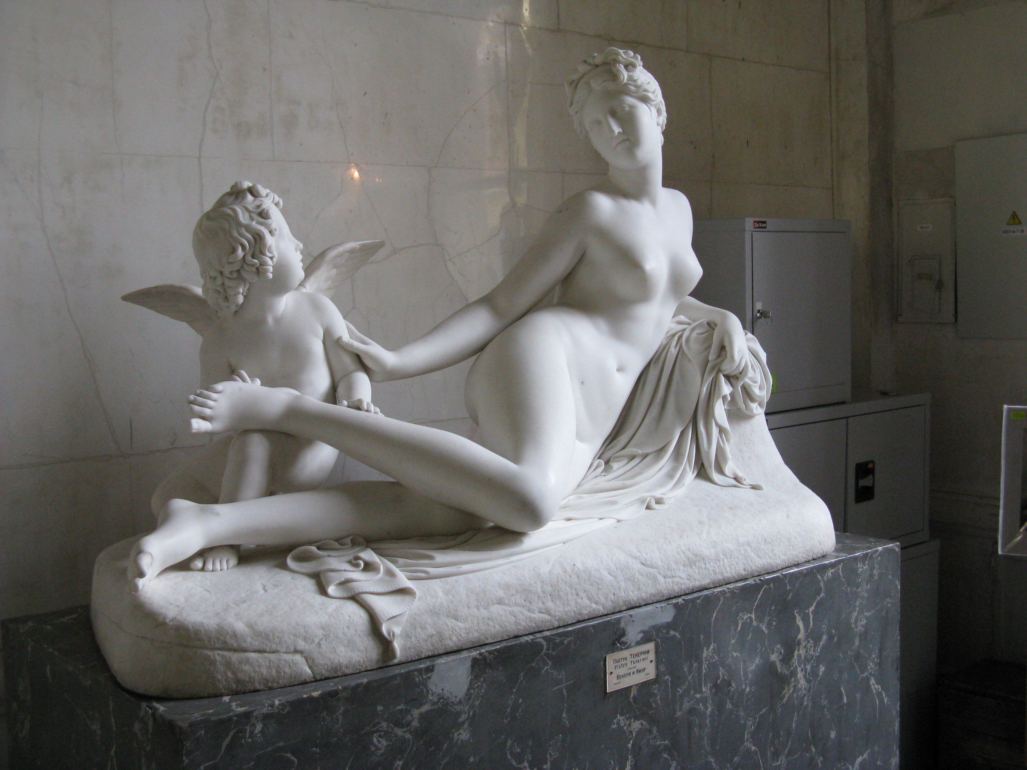 Cupid Pulling a thorn out of the foot of Venus by Pietro Tenerani at the Hermitage.